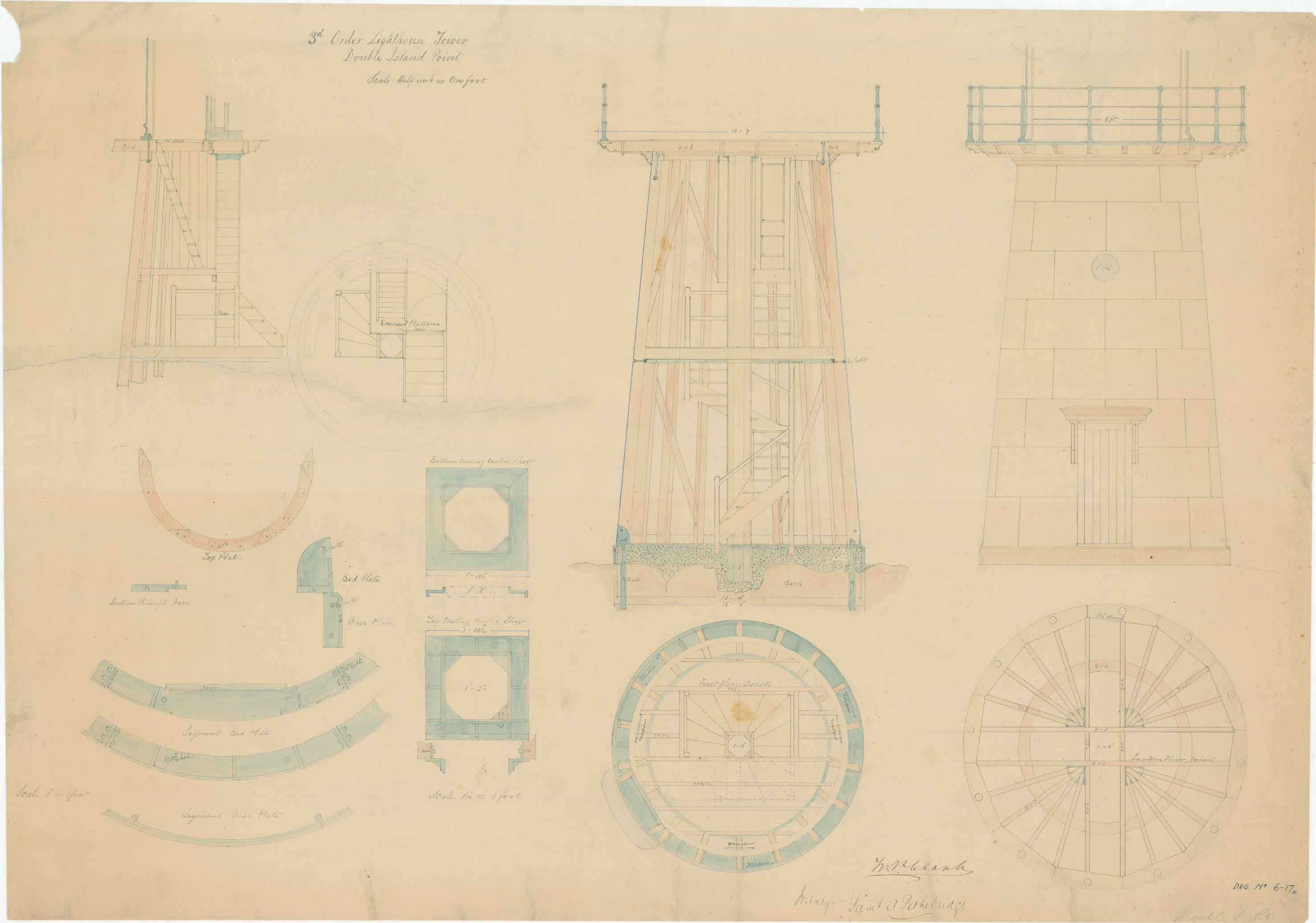 3rd order Lighthouse Tower - Double Island Point , 1915